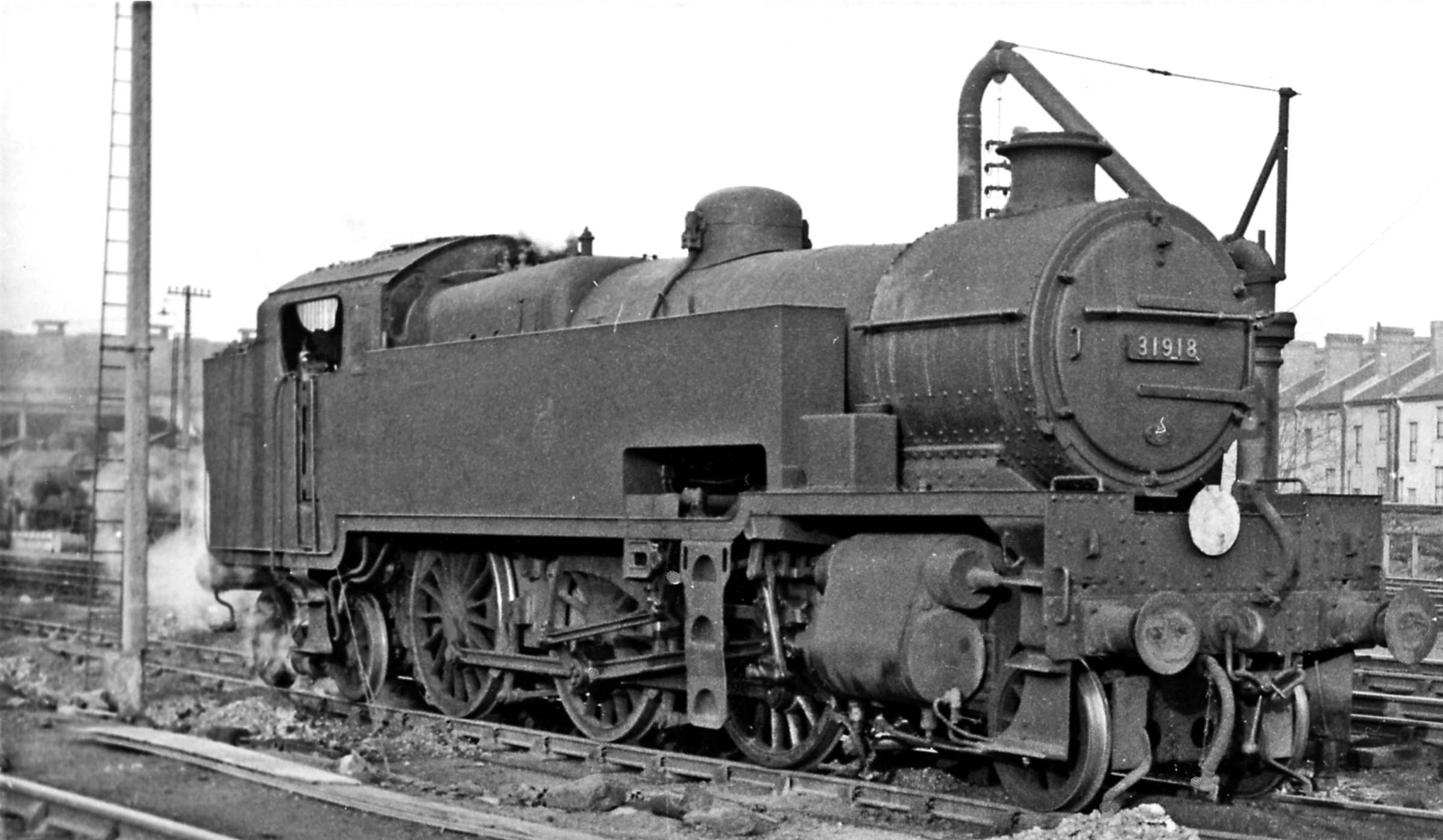 SR W class 2-6-4T at Norwood Locomotive Depot. Maunsell's W class of 15 2-6-4Ts were designed specifically for the heavy freight in London between the SR Goods Yards and those of the other three (GWR, LMSR and LNER); they very rarely went further afield. No. 31918 (built 6/35, withdrawn 8/63) is one of Norwood Depot's five.